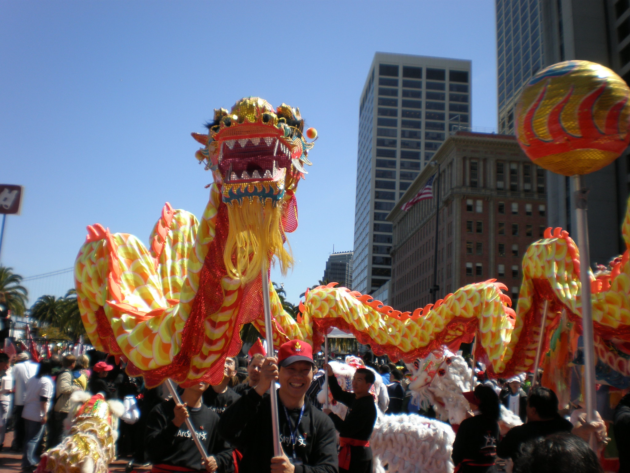 Employees of ArcSight perform a dragon dance in Justin Herman Plaza to welcome the torch's arrival. For an explanation and additional photos of my experience during the relay please see User:BrokenSphere/Gallery/San Francisco Bay Area/San Francisco/2008 Olympic Torch Relay.